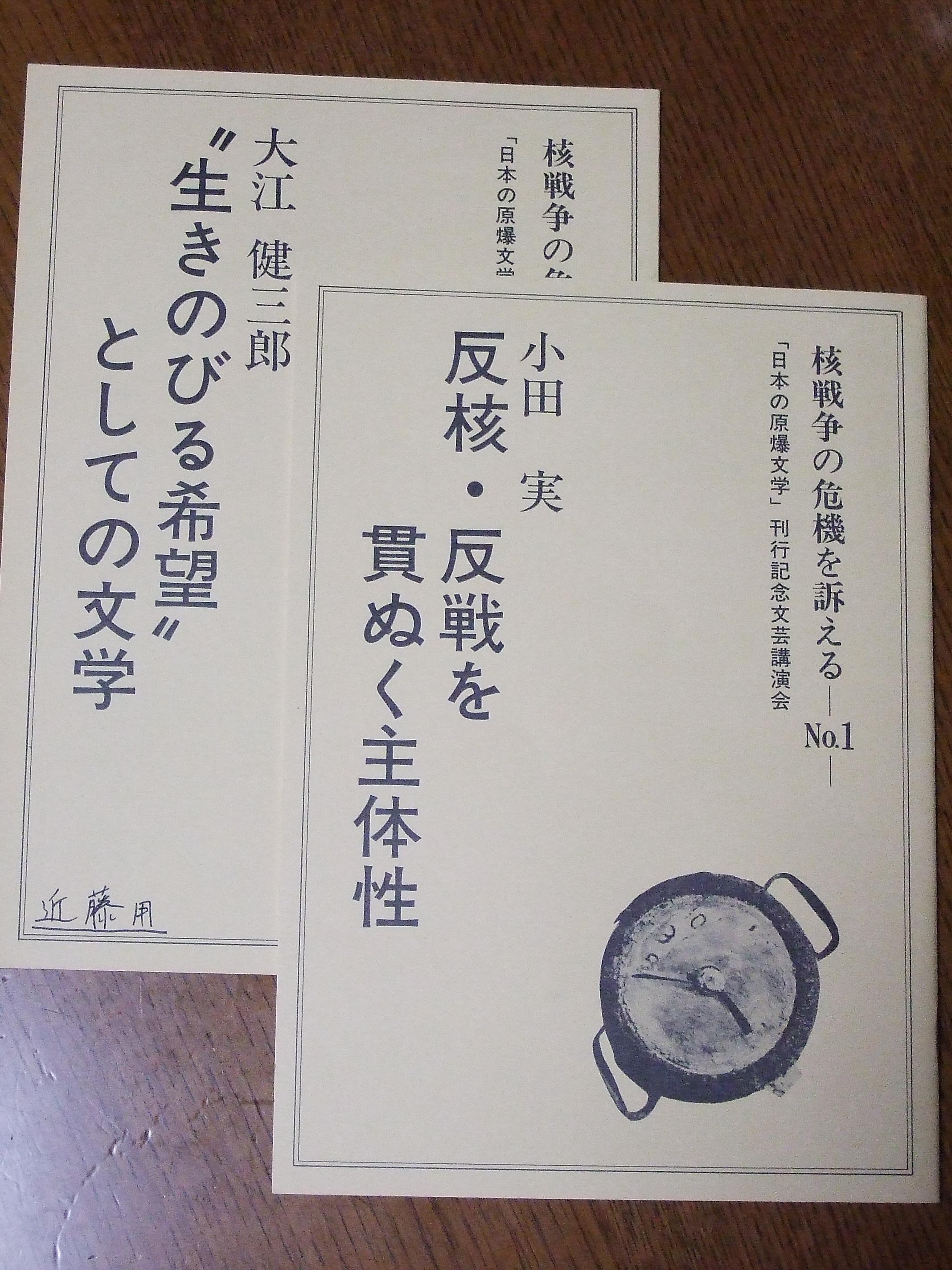 nihonnogenbakubungaku-5